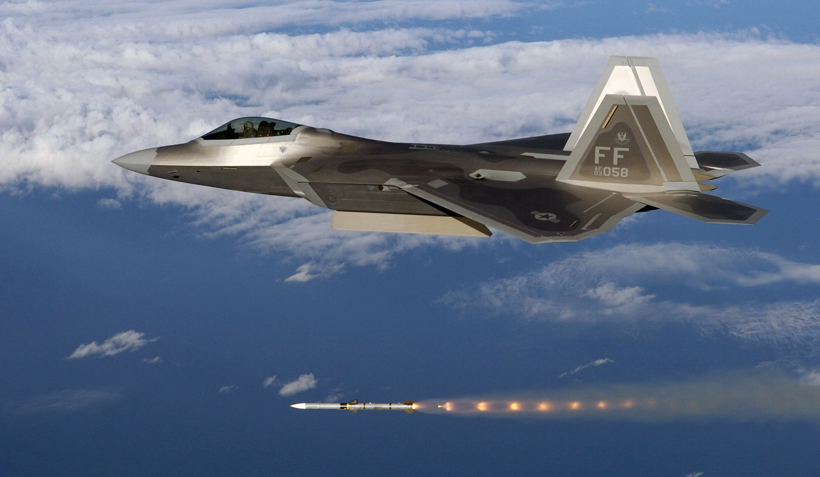 This F-22A Raptor #03-4058 from the 27th Fighter Squadron "Fighting Eagles" located at Langley Air Force Base, Virginia, fires an AIM-120 Advanced Medium Range Air-to-Air Missile (AMRAAM) and an AIM-9M sidewinder heat-seeking air-to-air missile at an BQM-34P "Fire-bee" subscale aerial target drone over the Gulf of Mexico during a Combat Archer mission. The unit was deployed to Tyndall AFB, Florida to support the Air-to-Air Weapons System Evaluation Program hosted by the 83rd Fighter Weapons Squadron also located at Tyndall.